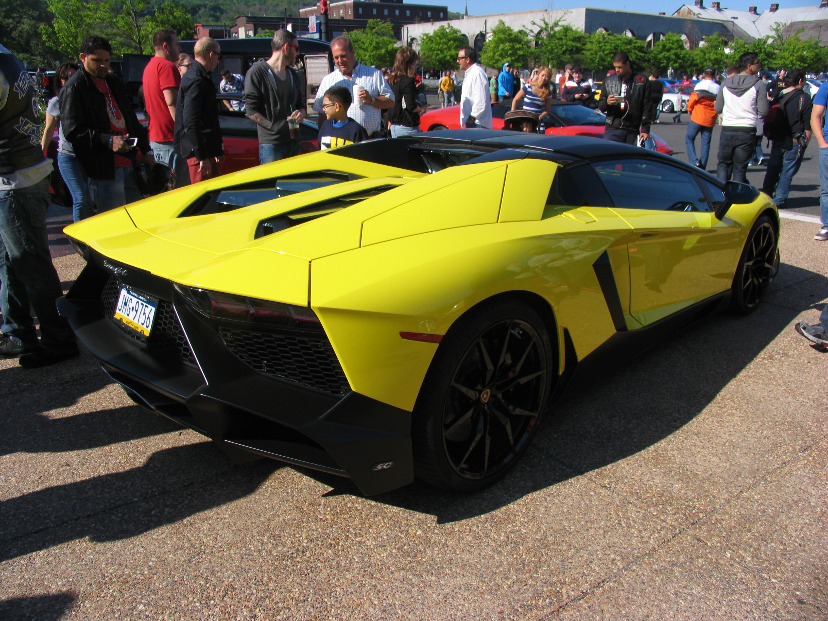 Lamborghini Aventador Roadster 50th Anniversario LP720-4